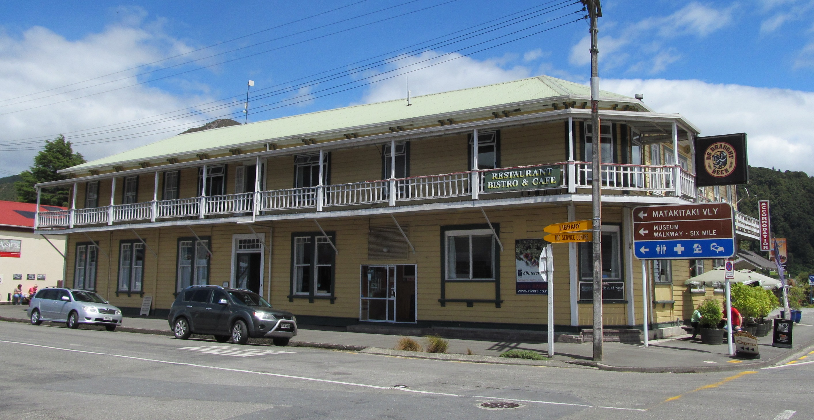 Hampden Hotel, the iconic 19th century hotel on the main street of Murchison.